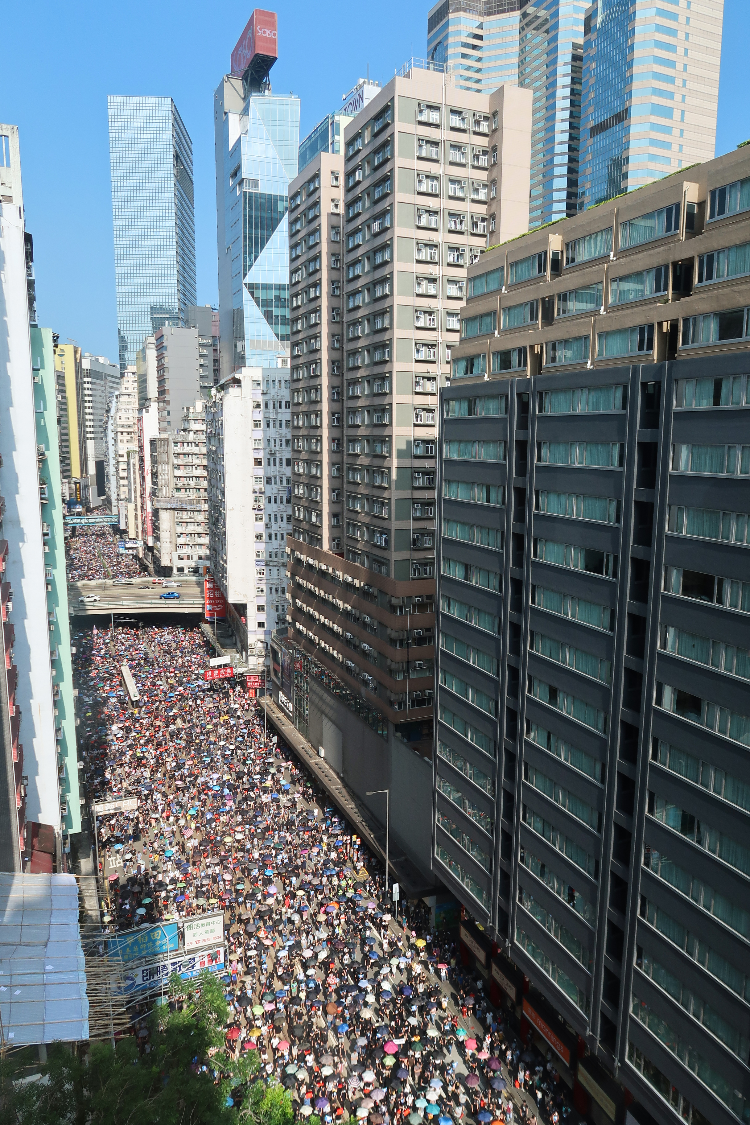 Hennessy Road Protesters